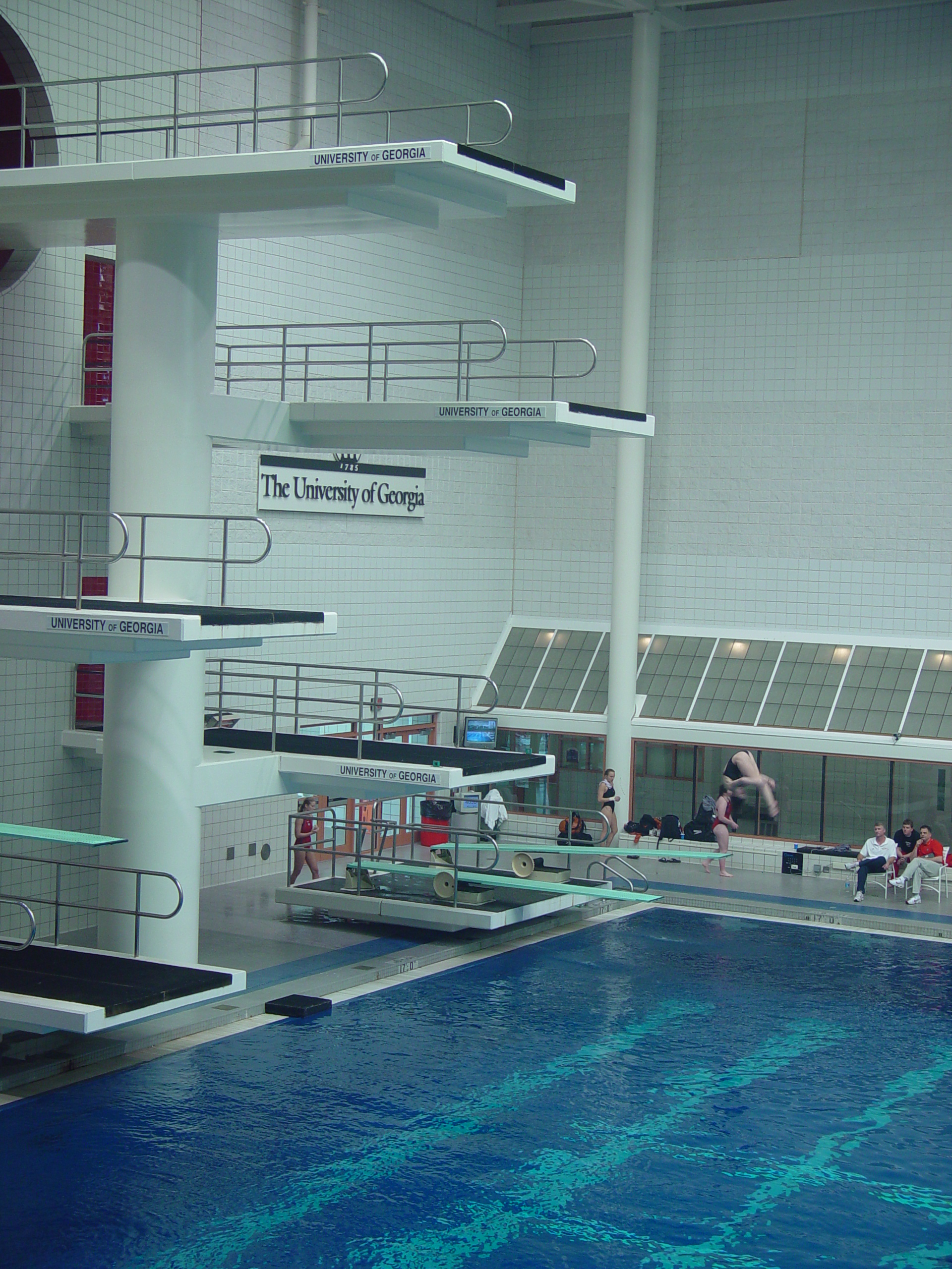 Unviersity of Georgia swimming and diving meet versus the University of Texas, Gabrielson Natatorium. Athens, Georgia, USA